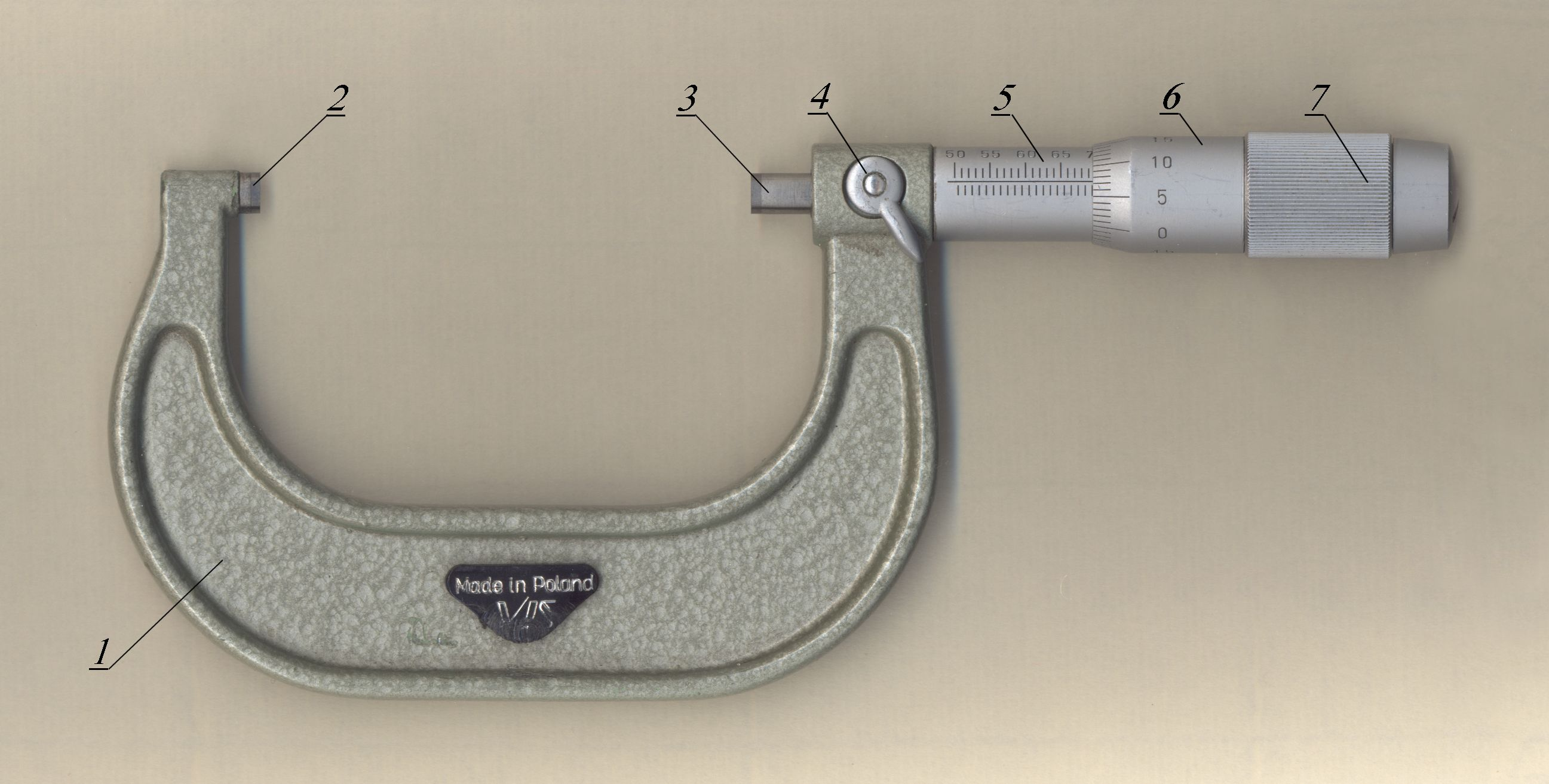 Outside micrometer 50-75 mm made in Poland by VIS circa 1975